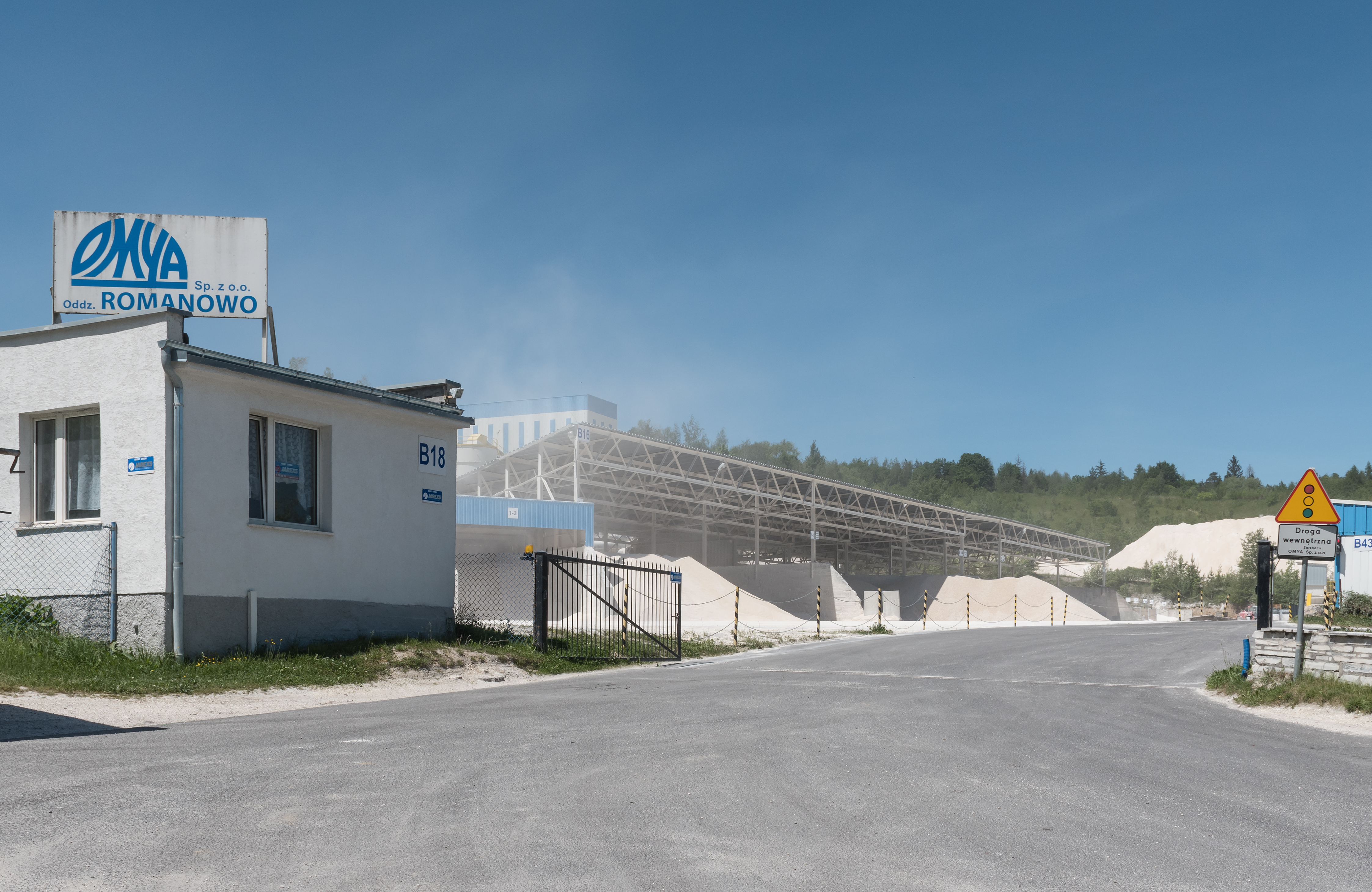 Romanowo mine